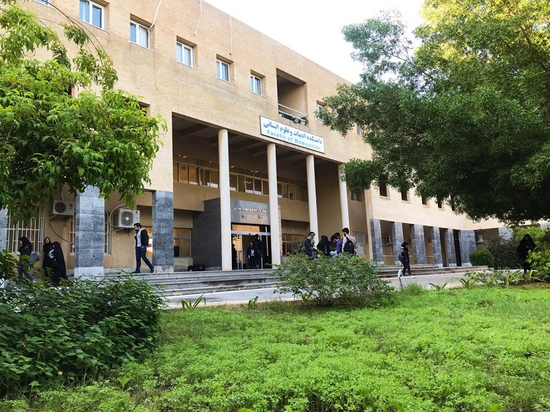 Persian Gulf University Faculty of Humanities main entry